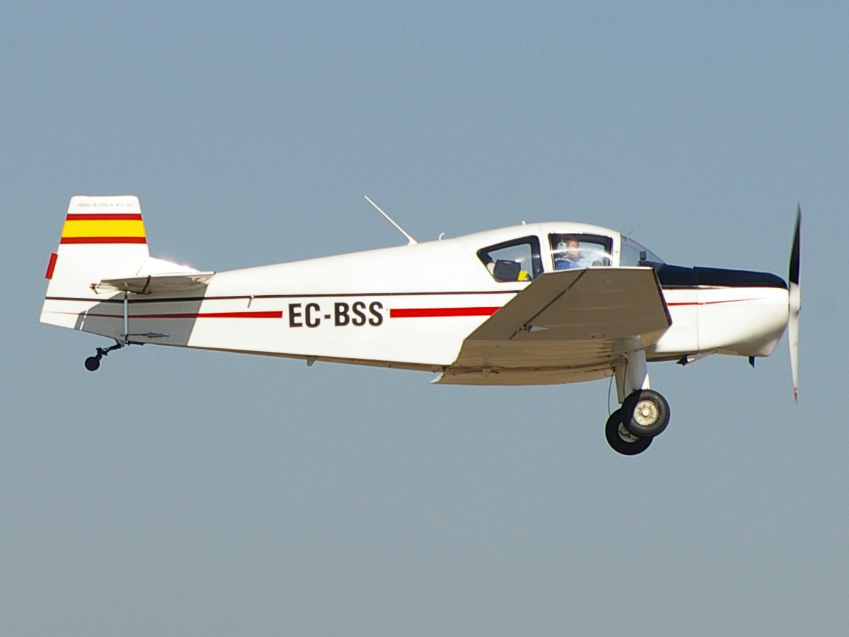 Jodel Compostela D1190-S, Reg. EC-BSS, Madrid-Cuatro Vientos Airport. The aircraft was built by Aerodifusion, 11/1969, construction № E.121